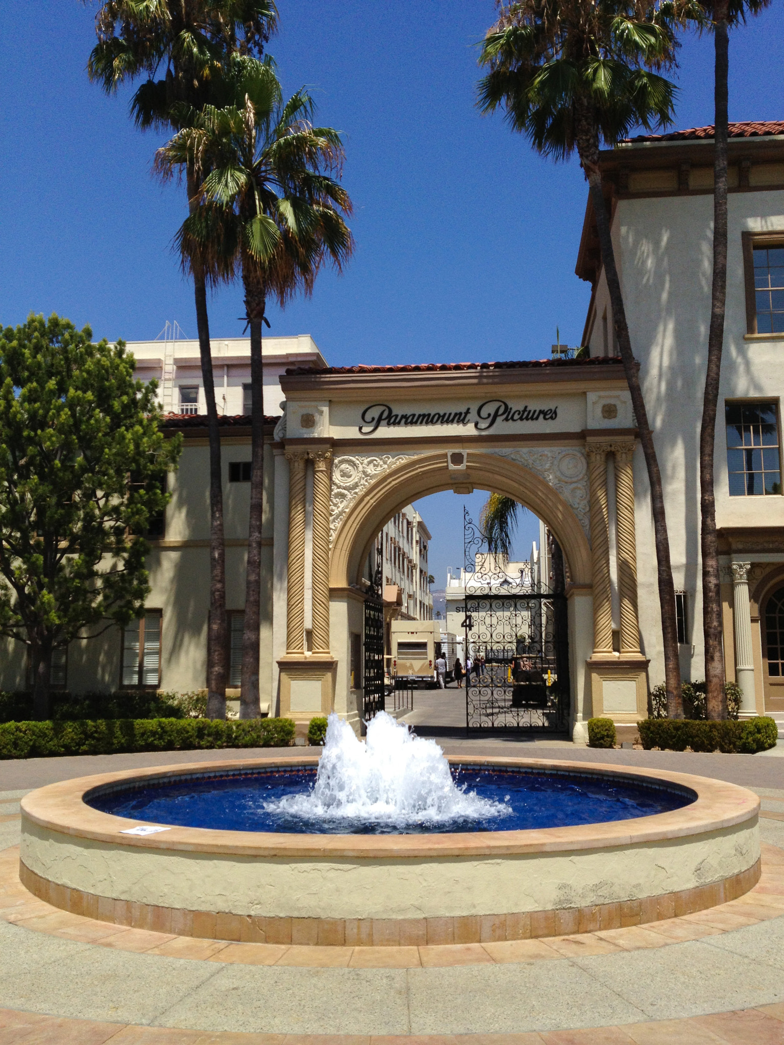 500px provided description: Paramount Filmstudios Hollywood